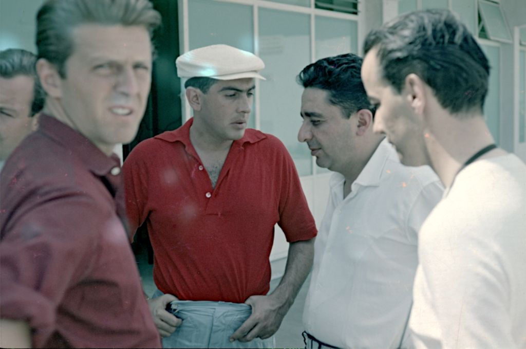 Drivers von Trips (out of focus on the left), Luigi Musso (centre) and Harry Schell (right) at the 1957 Argentine GP. Photo by Carlos Alberto Navarro.